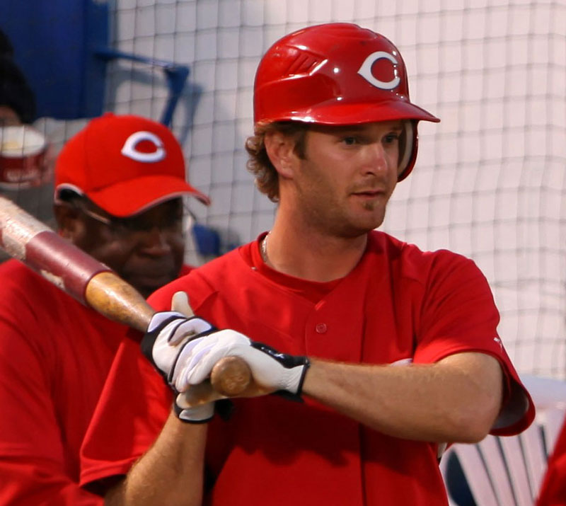 Jeff Keppinger in the on-deck circle, spring training 2008.